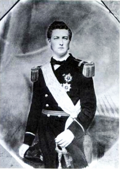 The Prince Ludwig August of Saxe-Coburg-Koháry.